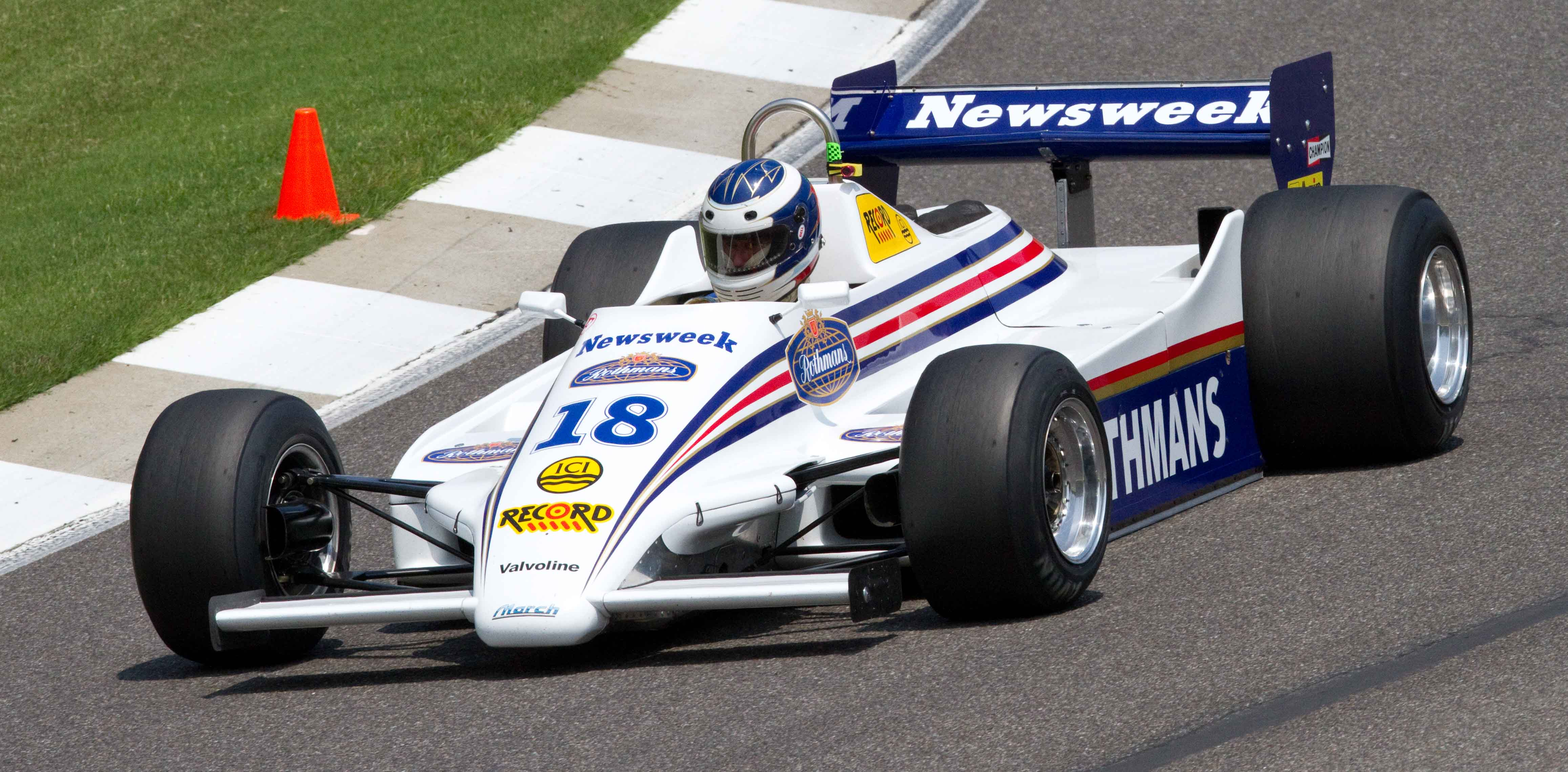 Ram-March 821 1982 at Barber Motorsports Park, 2010